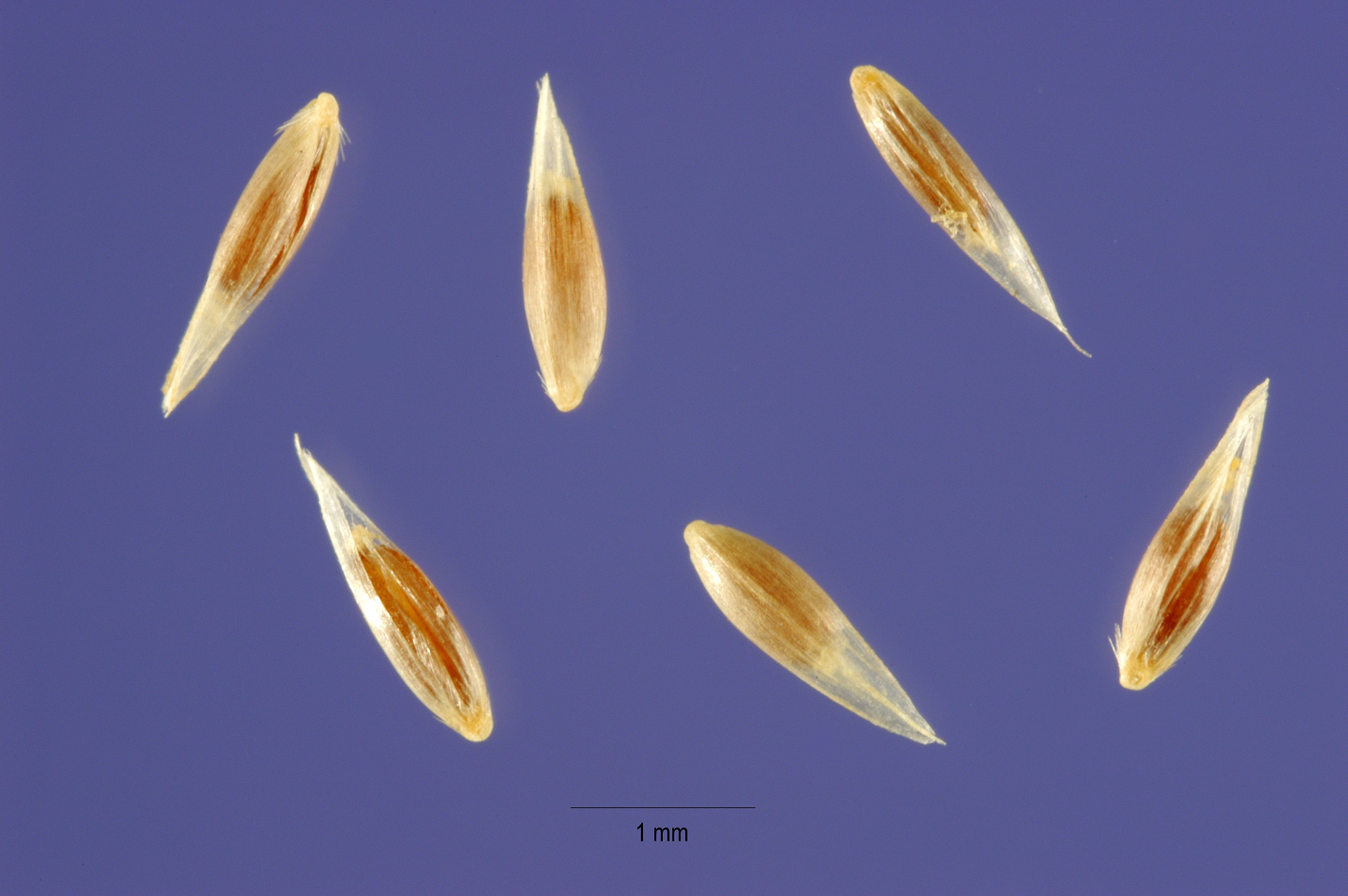 Creeping Bentgrass. Family Poaceae. Seeds from Alma Alta, Turkey.